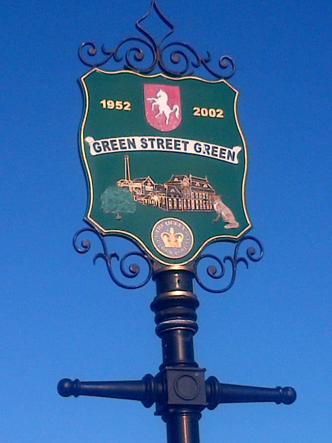 The village sign of Green Street Green, south east England.